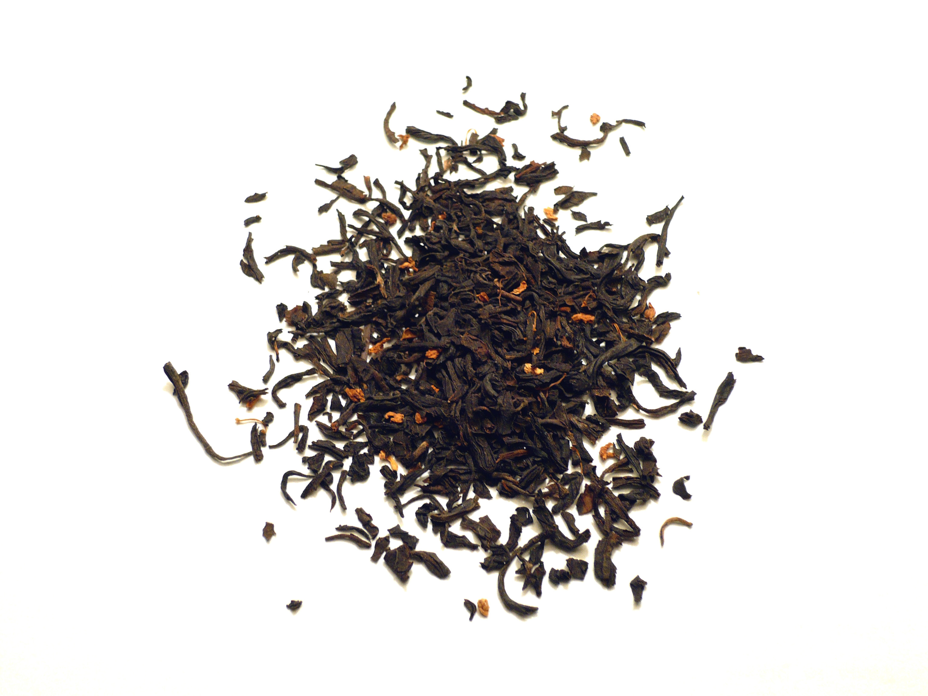 Chinese osmanthus black tea (dried black tea leaves with dried Sweet Osmanthus flowers). Photo taken in Kent, Ohio with a Panasonic Lumix digital camera (model DMC-LS75). Chinese osmanthus black tea purchased from Stash Tea.